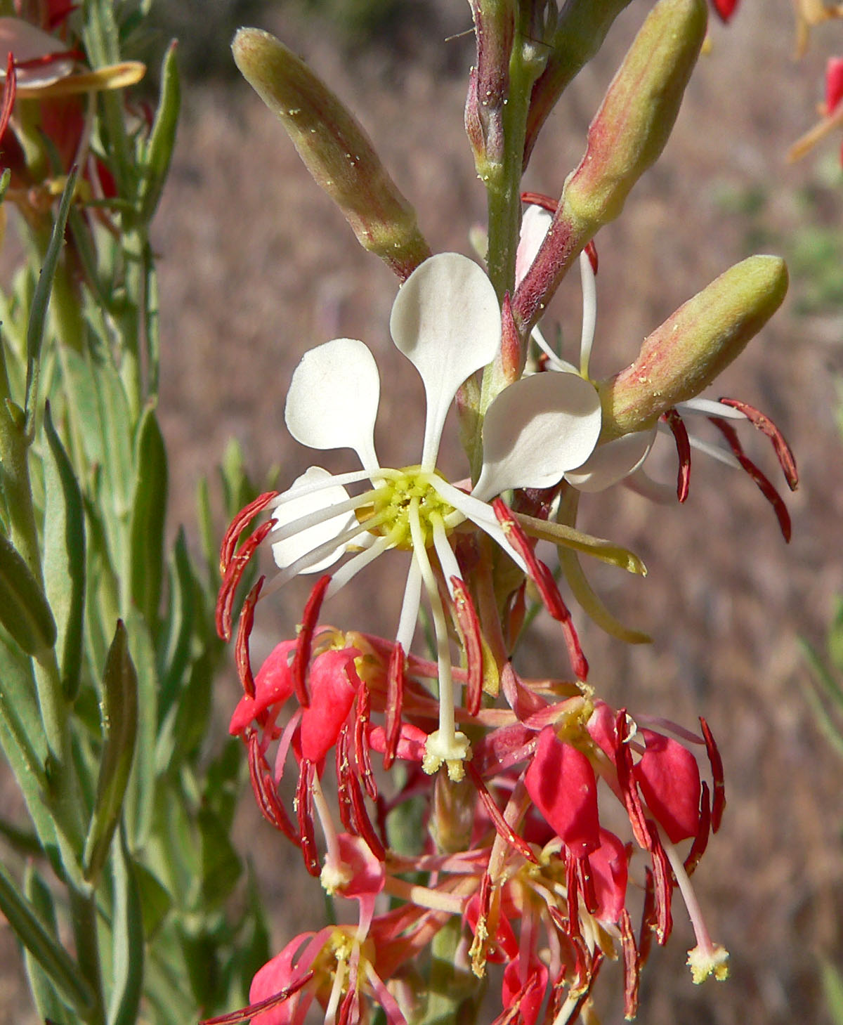 Photo of Gaura coccinea in Calico Basin west of Las Vegas, Nevada